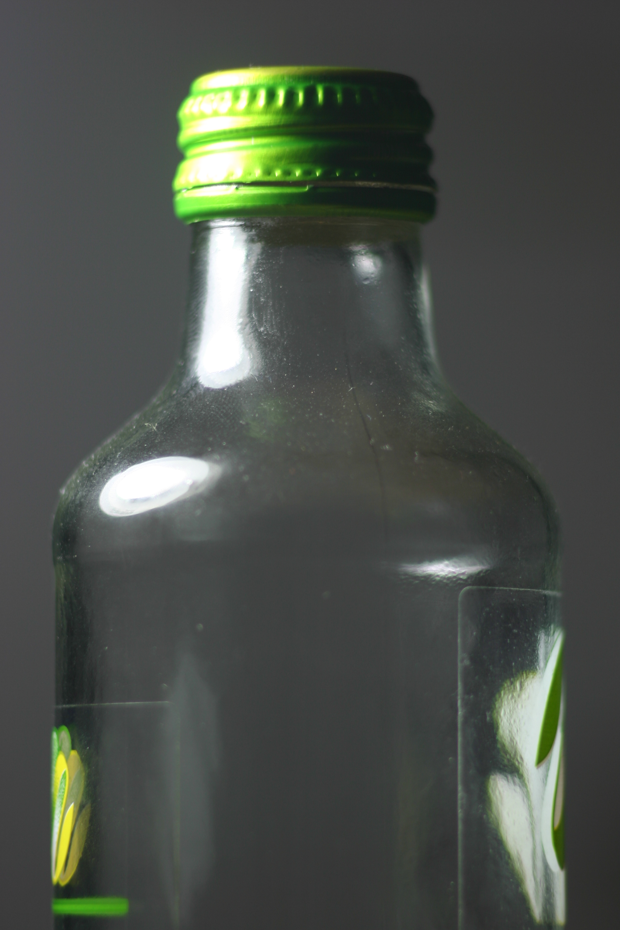 Part of a series illustrating the soft focus effect; in this instance, the Canon EF 135/2.8 Softfocus lens was used with the aperture fully open, along with a 20mm extension tube (to get close enough to the subject). In this image, the softfocus setting was set to 0.